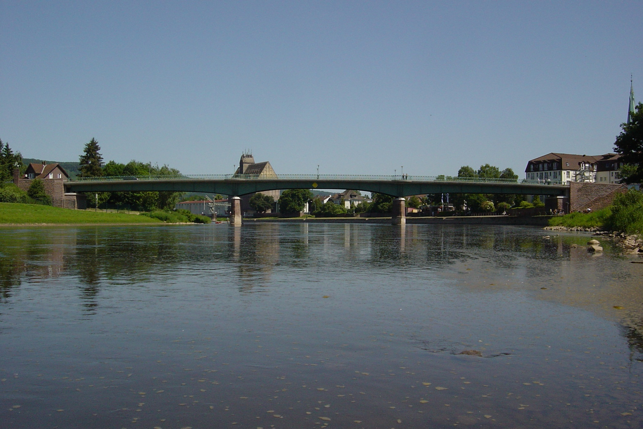 Old Weser Bridge Holzminden (Germany)